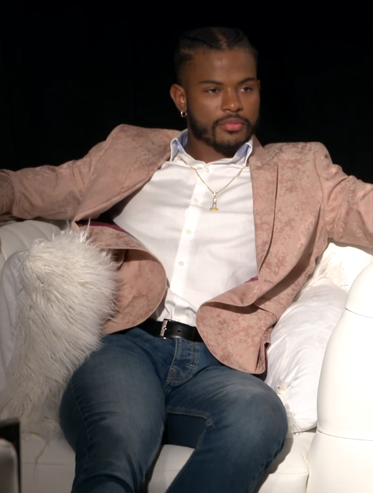 Trevor Jackson in 2018